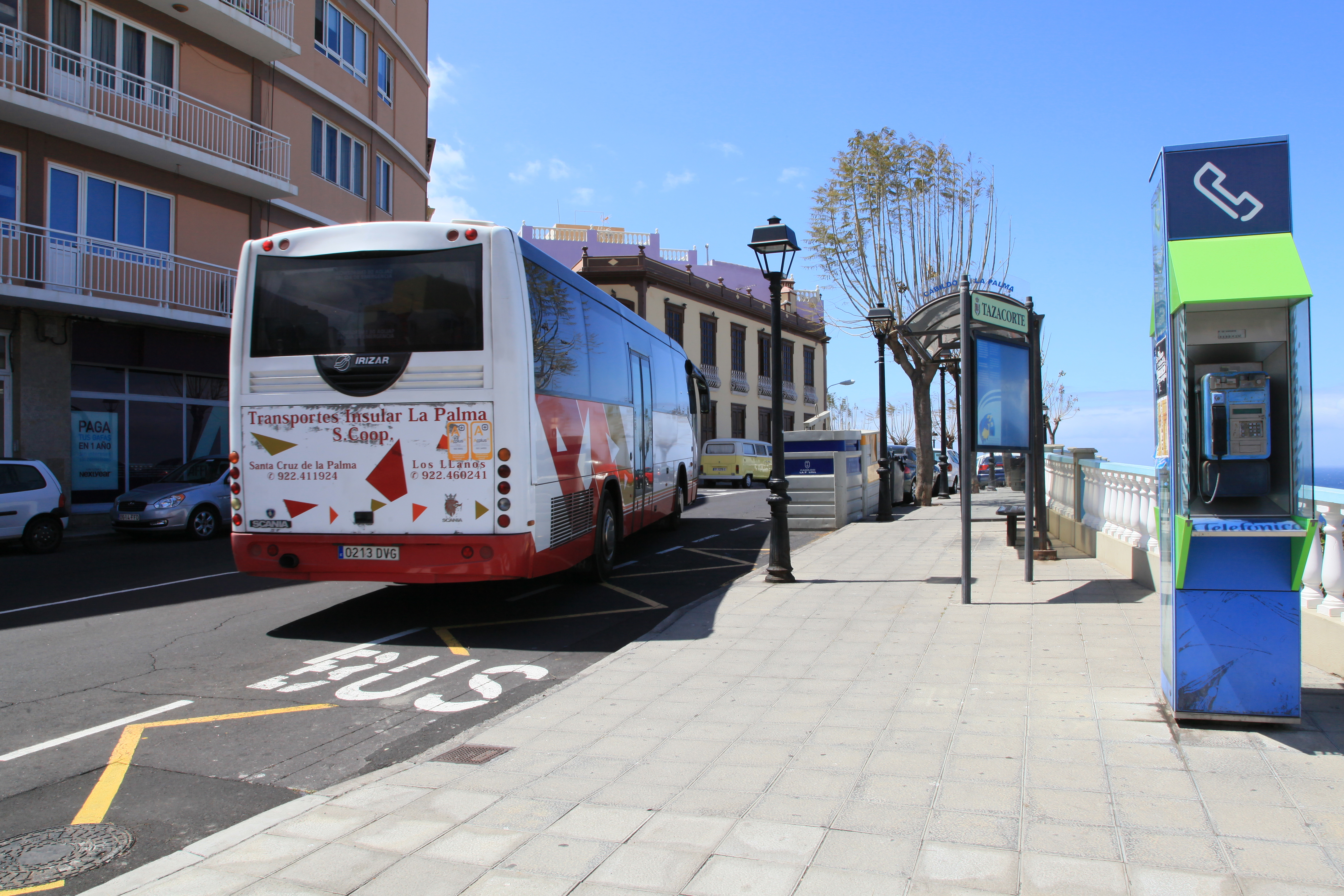 Avenida de la Constitución in Tazacorte, La Palma, Canary Island, Spain